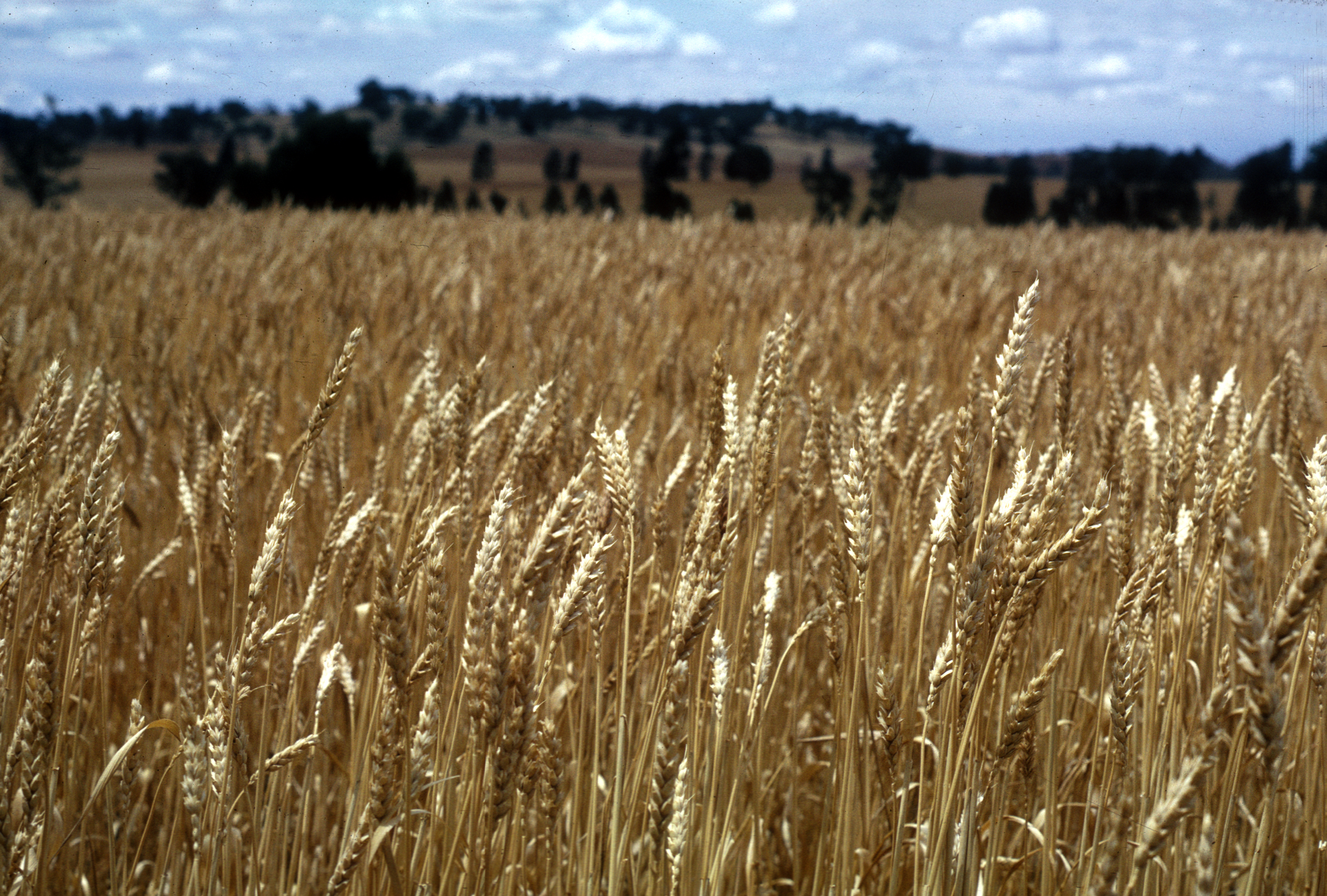 Field of wheat